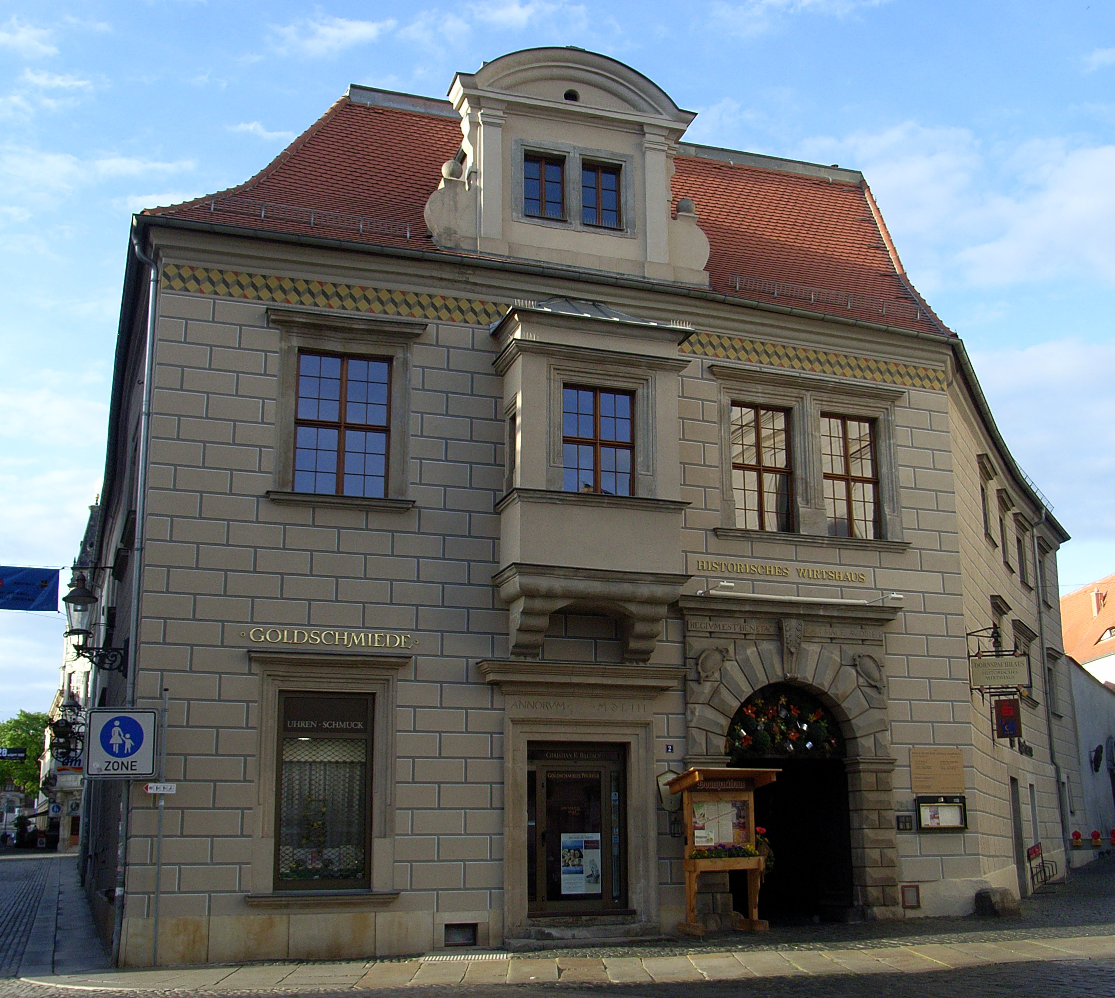 Zittau, Dornspach house, historical restaurant